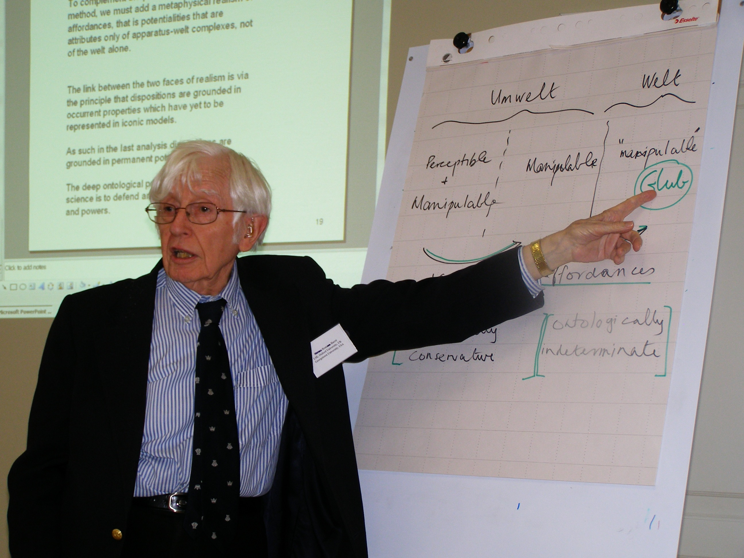 Rom Harré in Tartu, at the philosophy of science workshop of the Institute of Philosophy and Semiotics.